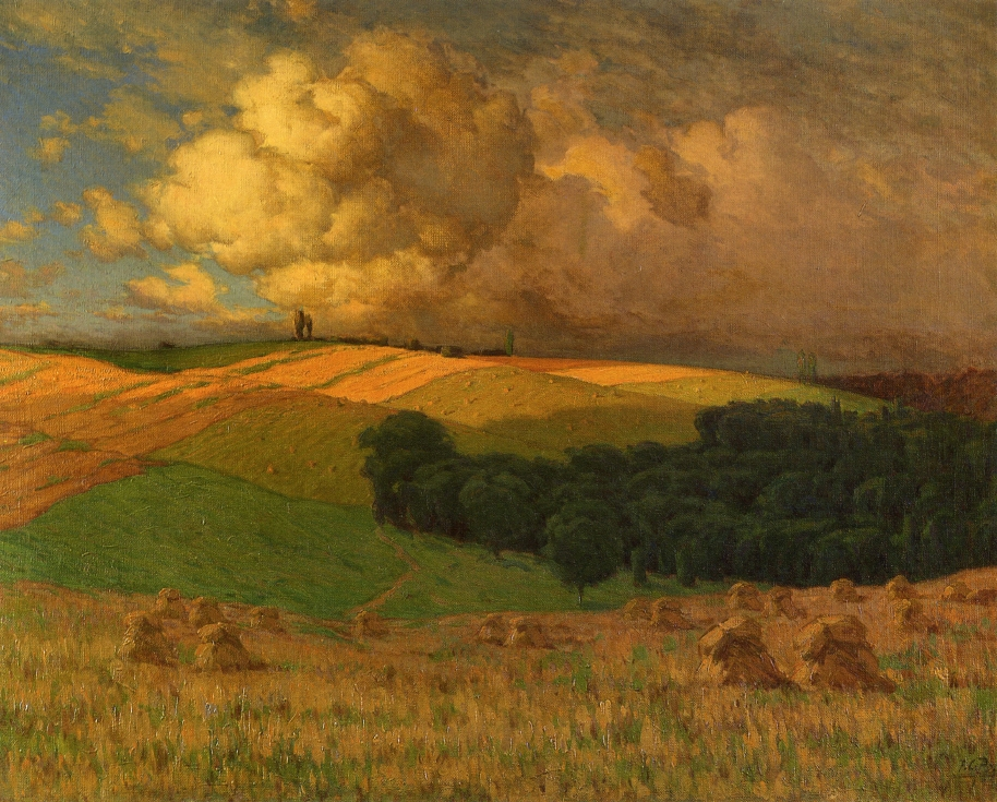 Frank Charles Peyraud - October